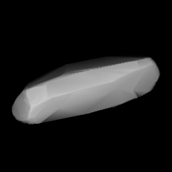 3D convex shape model of 2156 Kate, computed using light curve inversion techniques. J. Hanuš, J. Ďurech, M. Brož, B. D. Warner (June 2011). "A study of asteroid pole-latitude distribution based on an extended set of shape models derived by the lightcurve inversion method". Astronomy and Astrophysics 530: A134. ISSN 0004-6361. arXiv